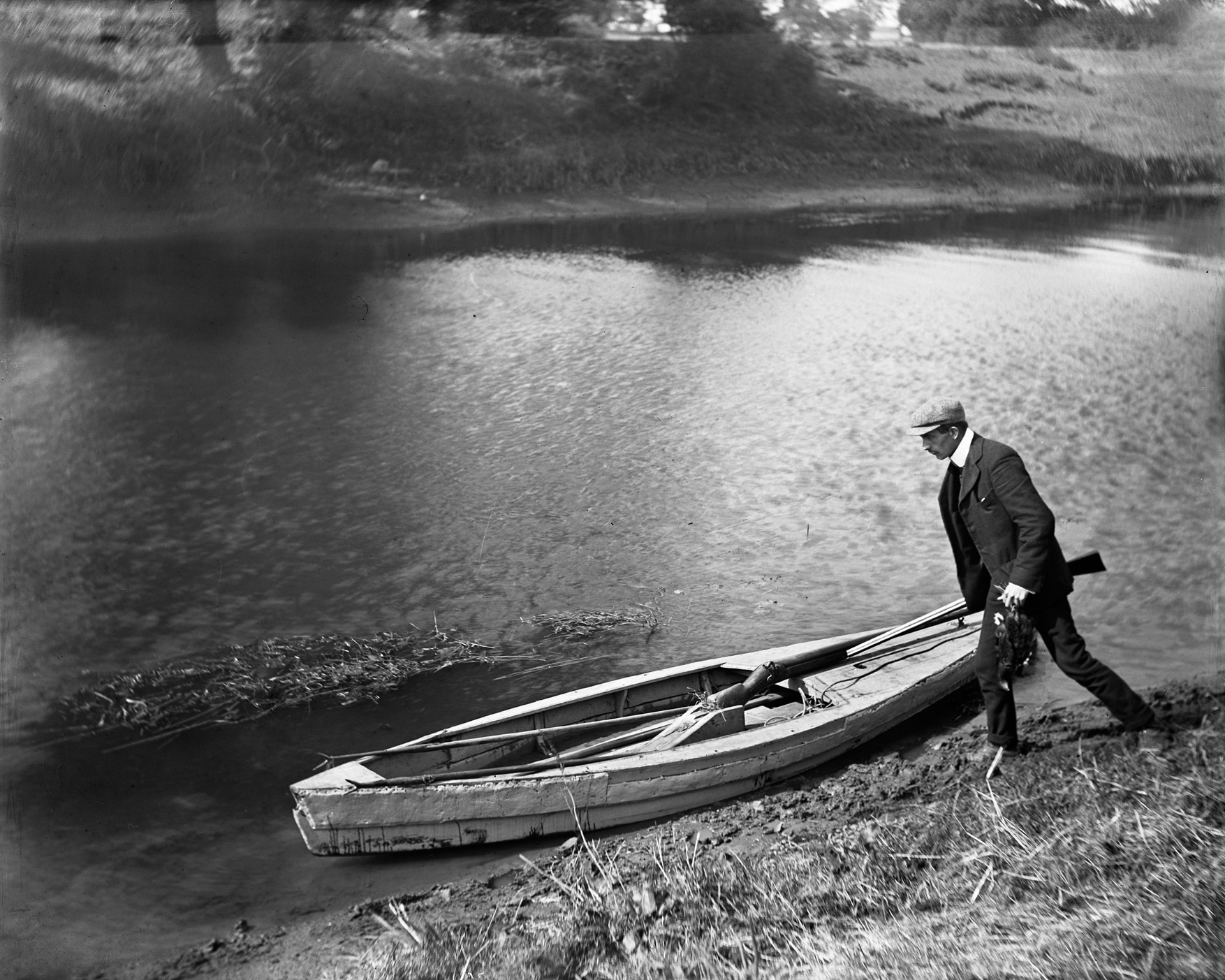 Sydney Harold Smith boarding gun punt Photographer Sydney Harold Smith (or collaborators on his behalf)Title Sydney Harold Smith boarding gun puntDescription The man is wearing a dark suit and cap with a white shirt.Date between 1900 and 1912 date QS:P,+1950-00-00T00:00:00Z/7,P1319,+1900-00-00T00:00:00Z/9,P1326,+1912-00-00T00:00:00Z/9Medium glass plate negativeDimensions 125mm (long edge) x 100mm (short edge)Collection Yorkshire Museum Native nameYorkshire MuseumParent institutionYork Museums TrustLocationYork, England, United KingdomCoordinates53° 57′ 42.48″ N, 1° 05′ 14.78″ W Established1830Web pageOfficial siteAuthority control : Q2086562 VIAF: 131438444 ISNI: 0000 0001 2158 9166 LCCN: n86847797 SUDOC: 032523386 BNF: 123537119 WorldCat institution QS:P195,Q2086562Accession number YORYM : S234Source This file has been provided by York Museums Trust as part of a GLAMwiki partnership. This tag does not indicate the copyright status of the attached work. A normal copyright tag is still required. See Commons:Licensing. Permission(Reusing this file) This work is in the public domain in its country of origin and other countries and areas where the copyright term is the author's life plus 70 years or fewer. This work is in the public domain in the United States because it was published (or registered with the U.S. Copyright Office) before January 1, 1924. This file has been identified as being free of known restrictions under copyright law, including all related and neighboring rights. The man is wearing a dark suit and cap with a white shirt.